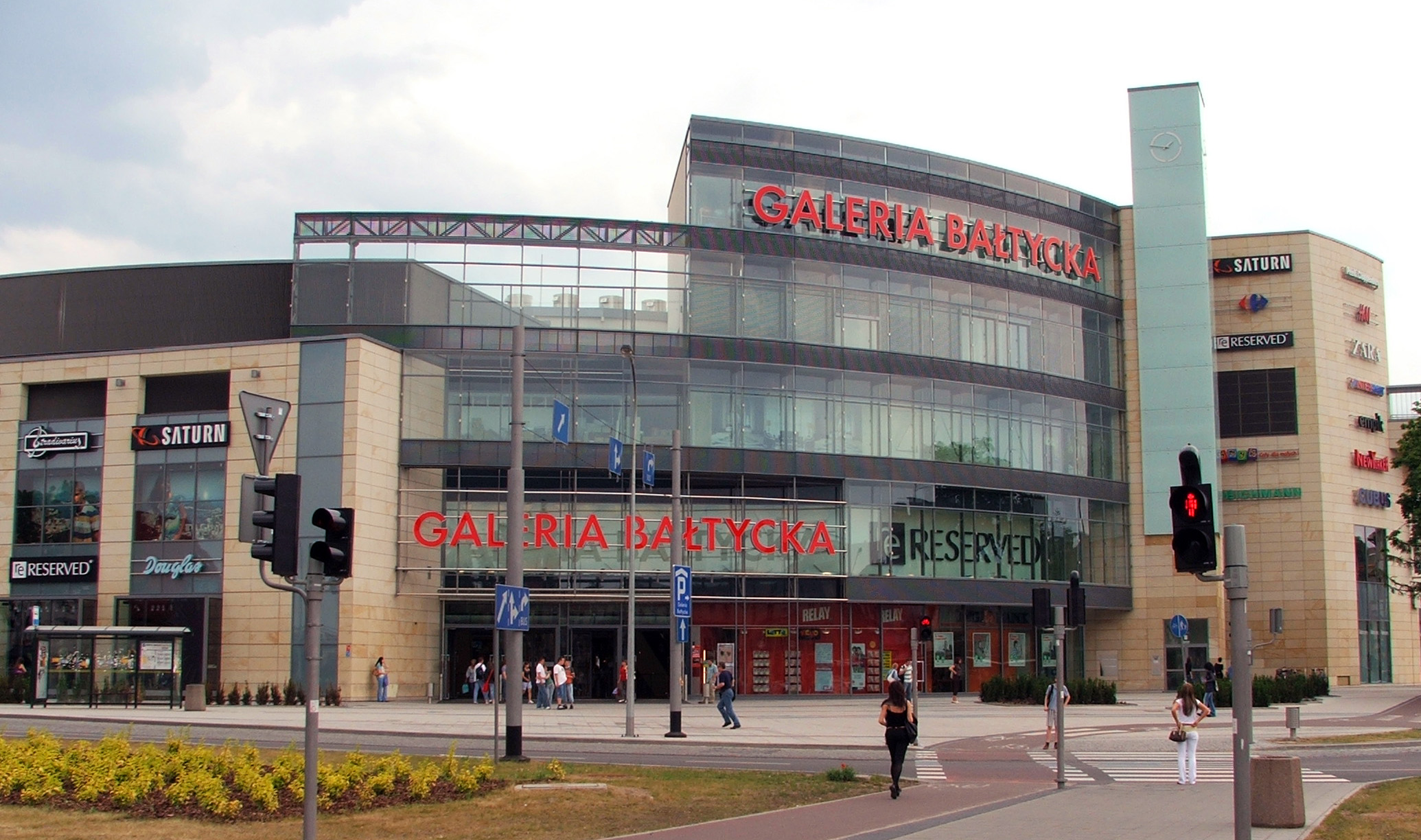 Baltic Gallery